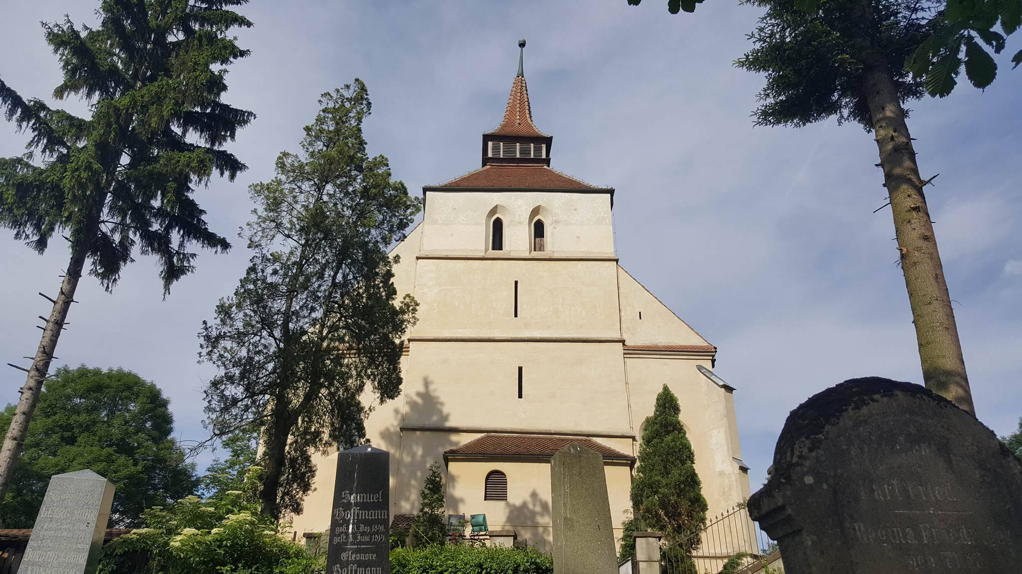 the church on the hill in the citadel of Sighisoara